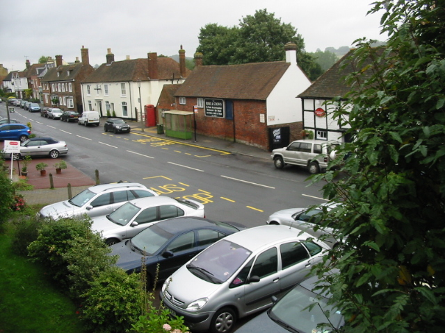 View of Elham High Street From the Abbots Fireside hotel